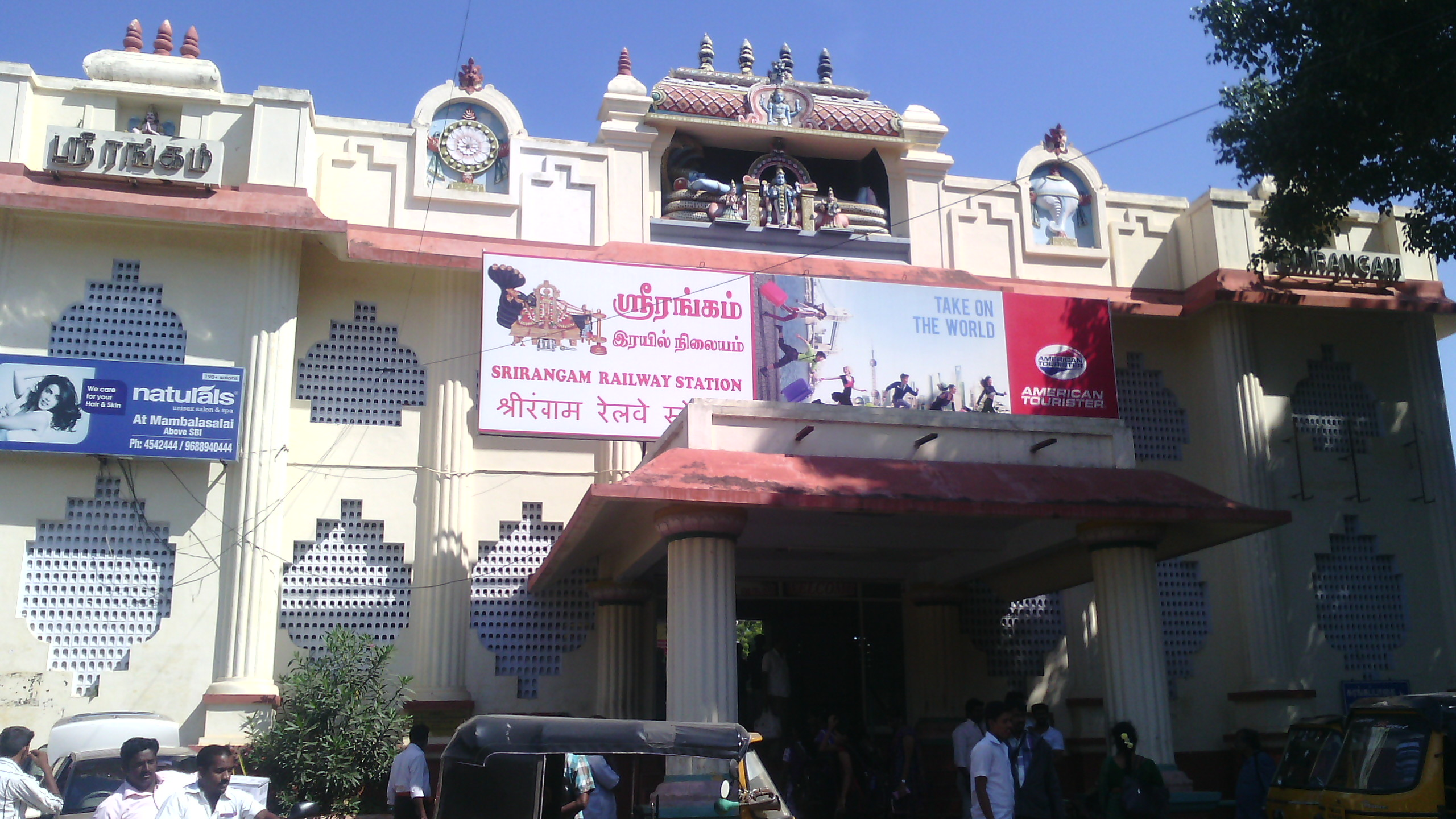 Sri Rangam Railway Station, Srirangam, TN